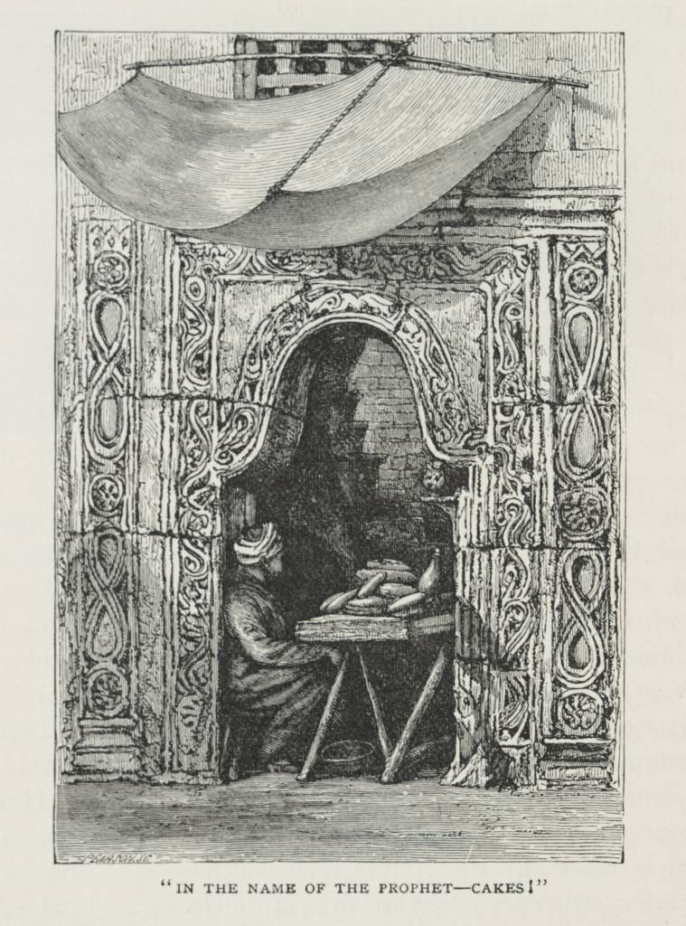 Through an arched doorway engraved with figure-eights, a man is seen seated at a table with many cakes.